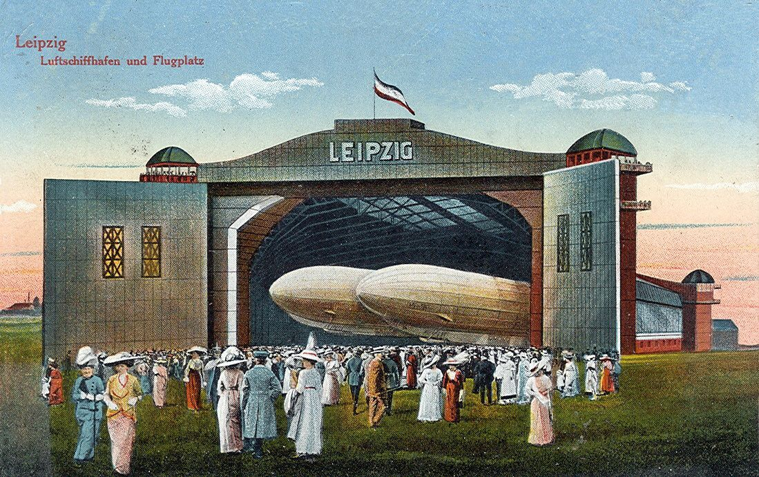 Postcard, dated 23.1.1917. Title: "Leipzig - Airport"